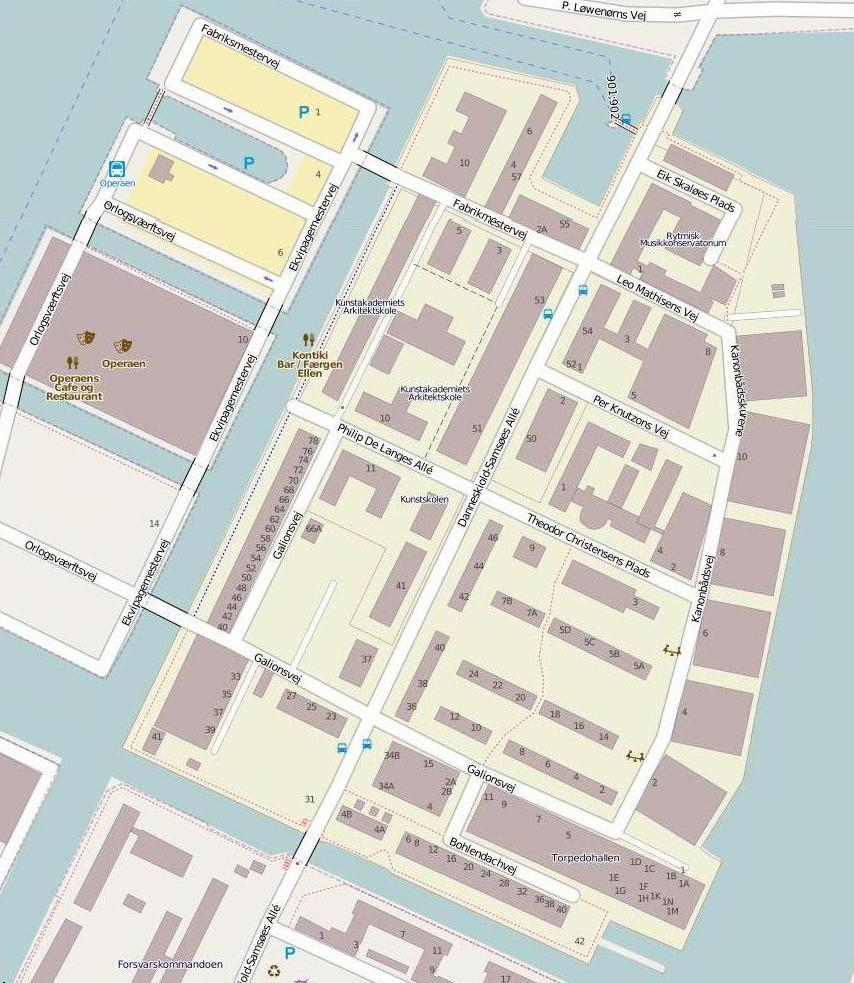 The island Frederiksholm in Copenhagen, Denmark. Formerly part of the Naval Base Copenhagen. Map from OpenStreetMap.